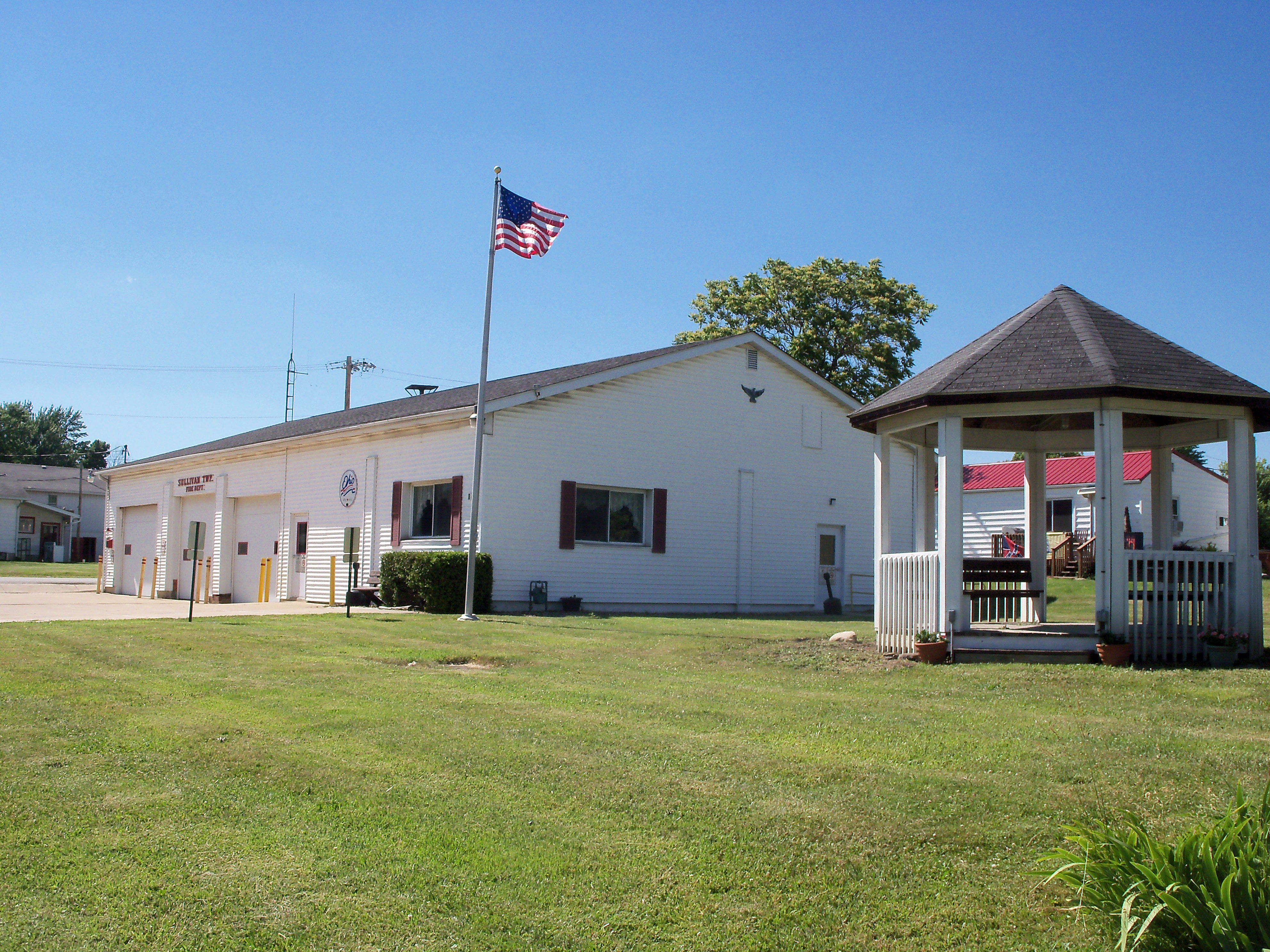 Town Hall, Fire Department and gazebo in Sullivan in Sullivan Township, Ashland County, Ohio